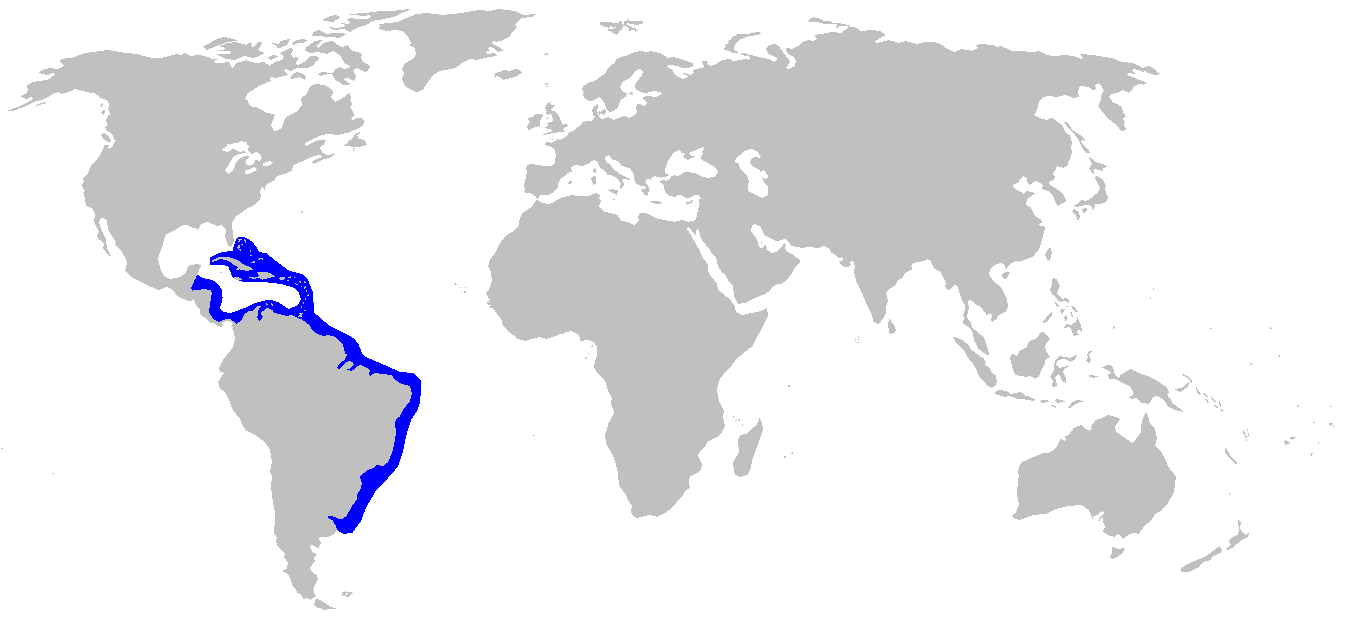 Distribution map for Rhizoprionodon porosus